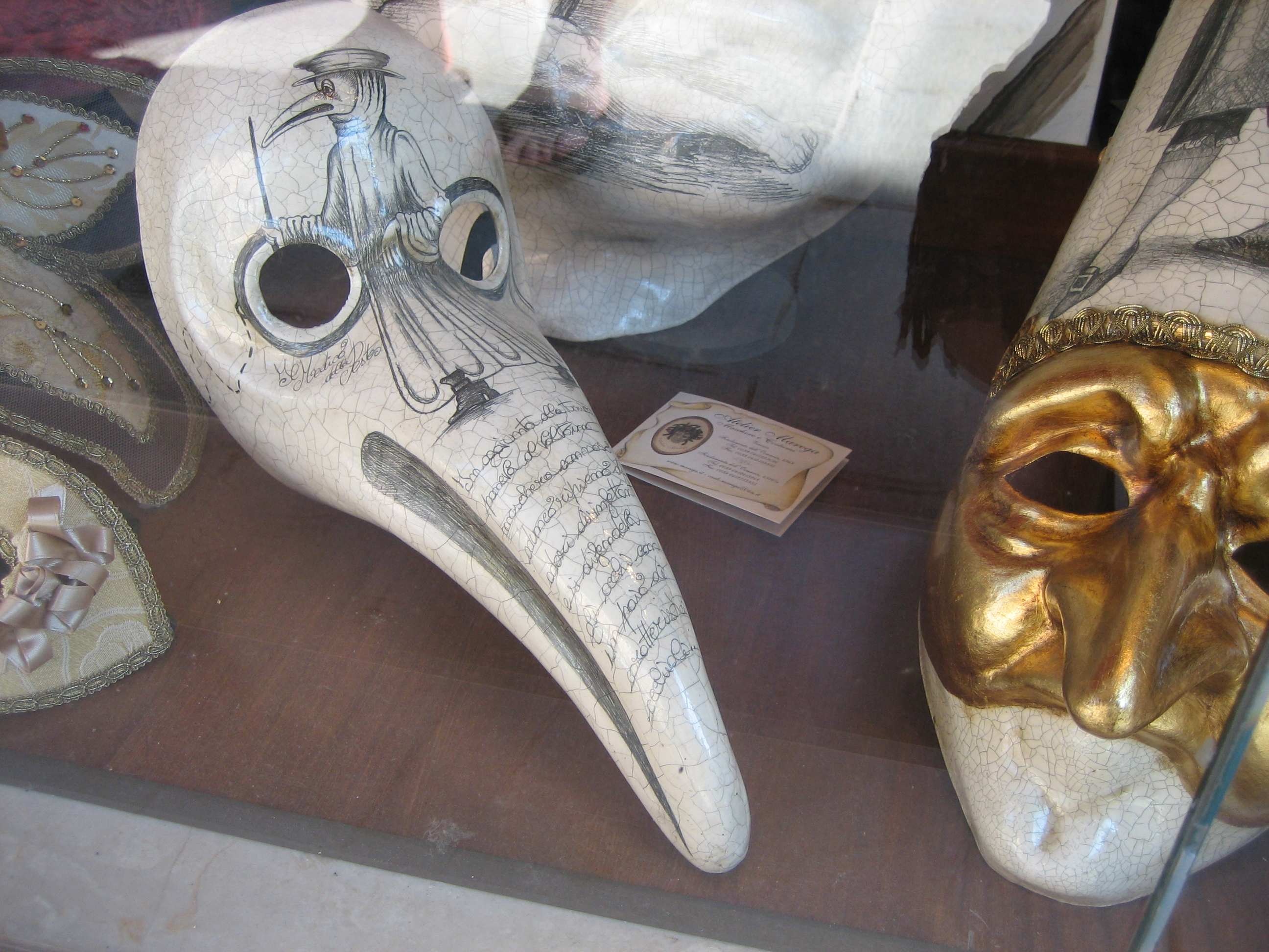 Medico Della Peste - "plague doctor's" mask - Beak doctor mask; Traditional Venetian Carnavale masks, including the "plague doctor's" mask, in the window of the Ca' del Sol mask shop in the Sestiere di Castello.